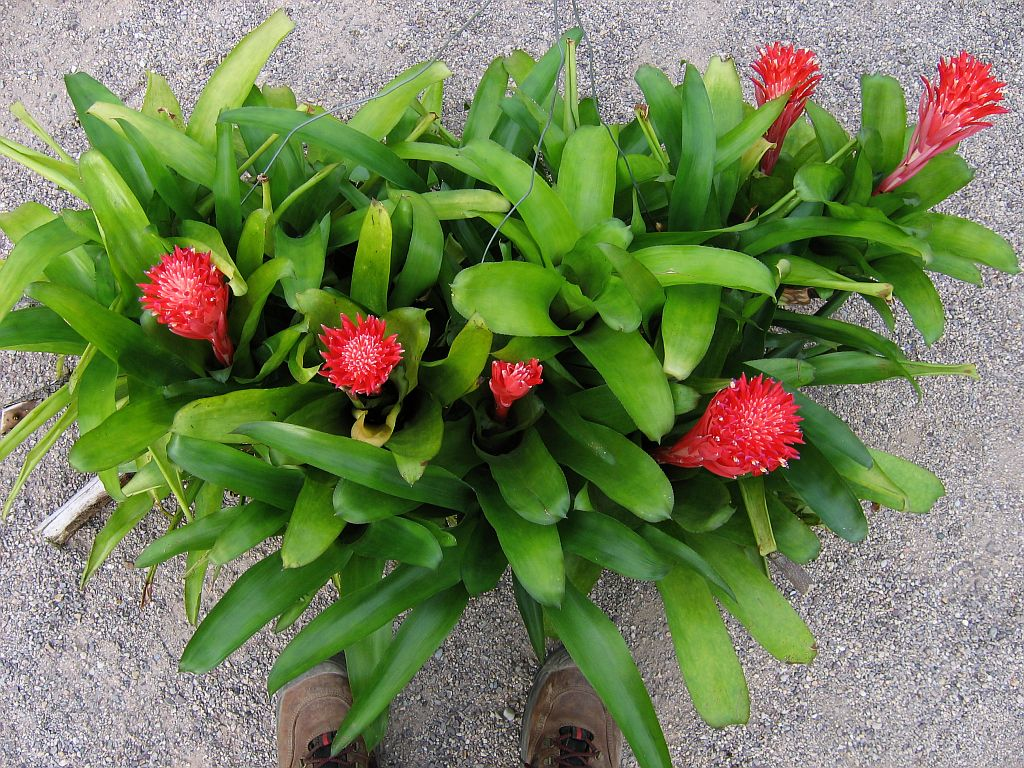 Billbergia pyramidalis var. concolor in cultivation at the Botanical Garden of Heidelberg, Germany.